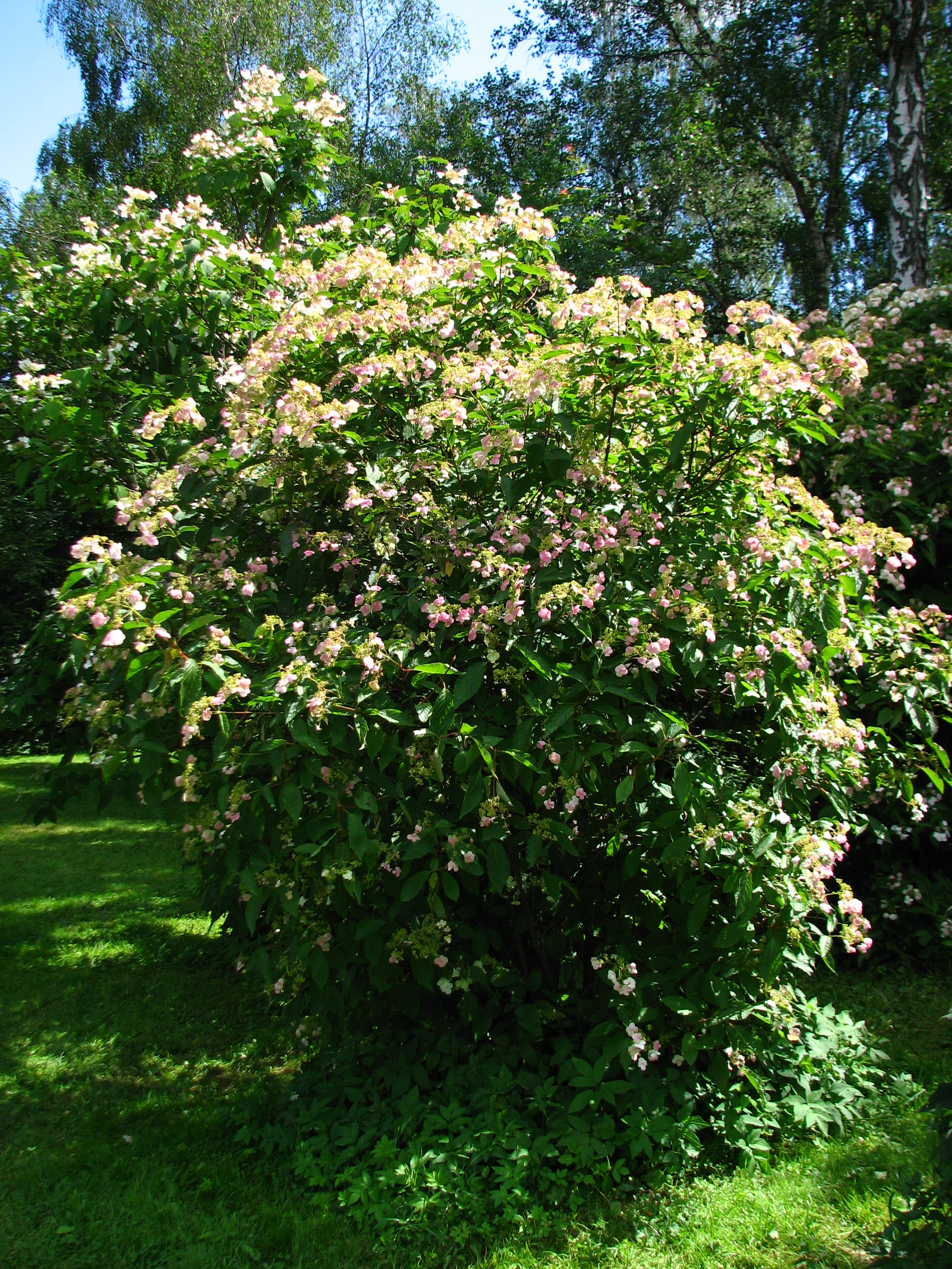 Hydrangea bretschneideri in the Arboretum. Main Botanical Garden of Academy of Sciences in Moscow.